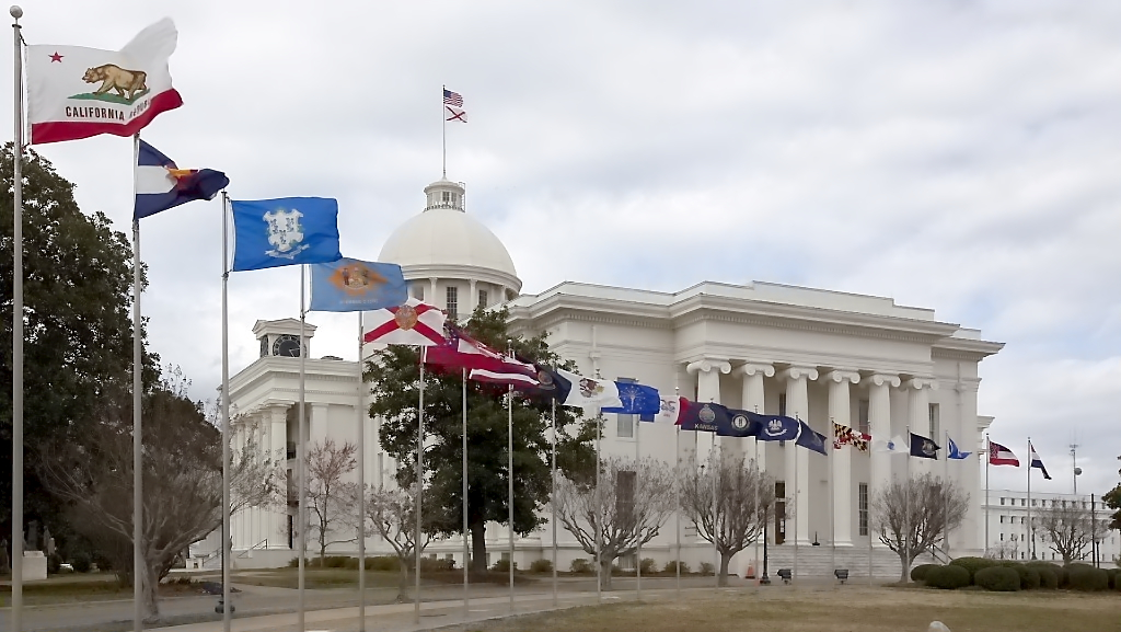 Capitol building, Montgomery, Alabama.